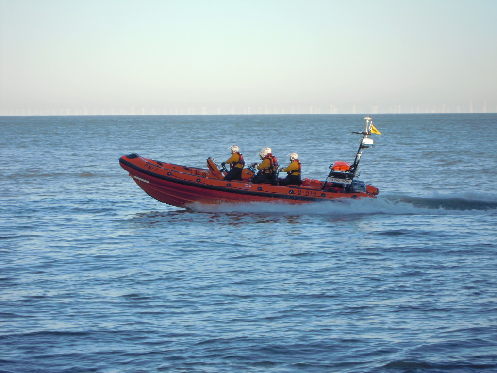 The Sheringham Inshore lifeboat RNLB The Oddfellows (B 818) just after a practice launch from the station.